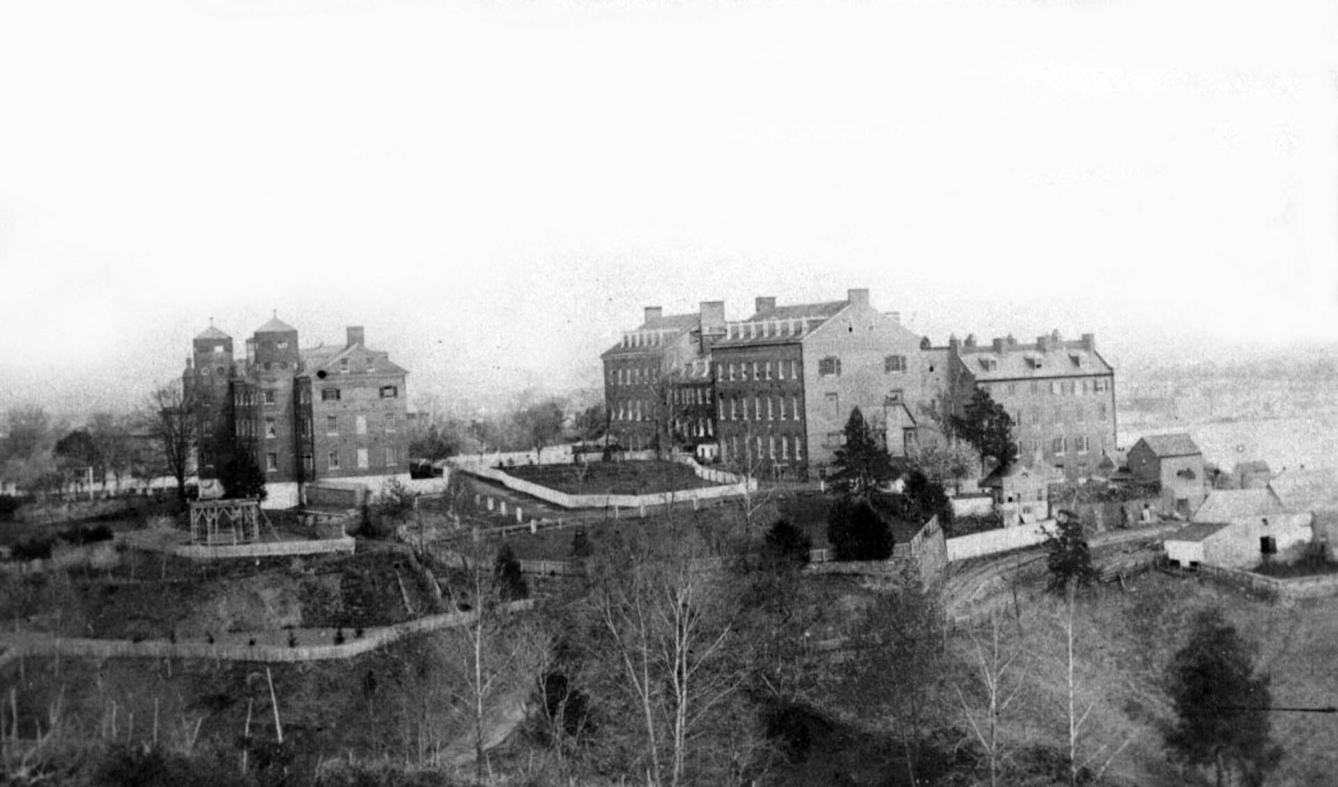 Panoramic view of the Georgetown University.